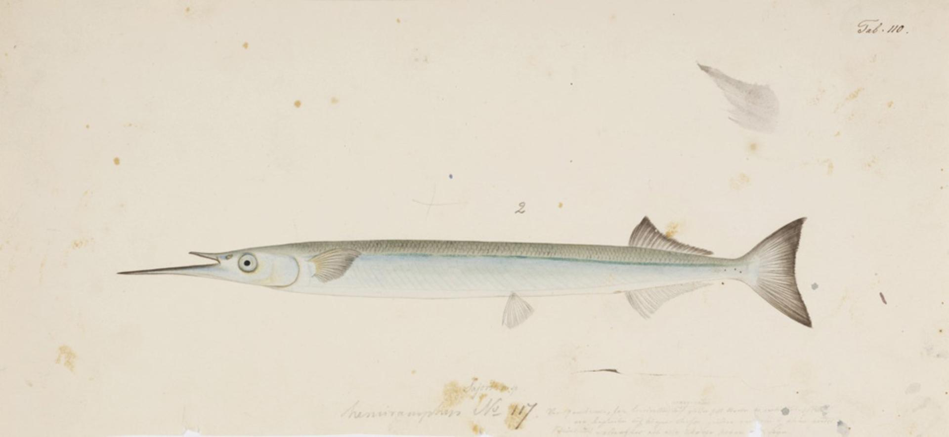 Hyporhamphus sajori Temminck and Schlegel